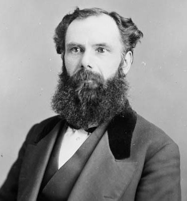 William Paterson, M.P. (Brant South) Sept. 19, 1839 - Mar. 18, 1914